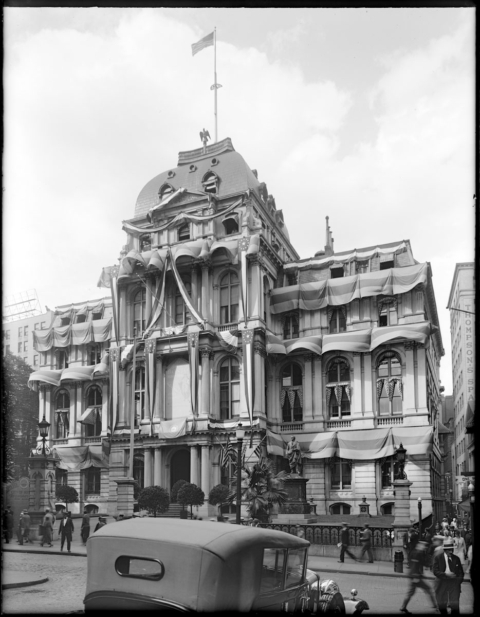 Accession No.: 08_01_000454 Title: City Hall, School Street Format: photograph Source: 6.5x8.5 glass negative Date: Aug. 12, 1930 Photographer: Abdalian, Leon H.